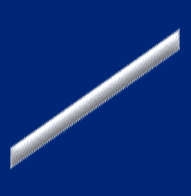 US Coast Guard Seaman Recruit insignia